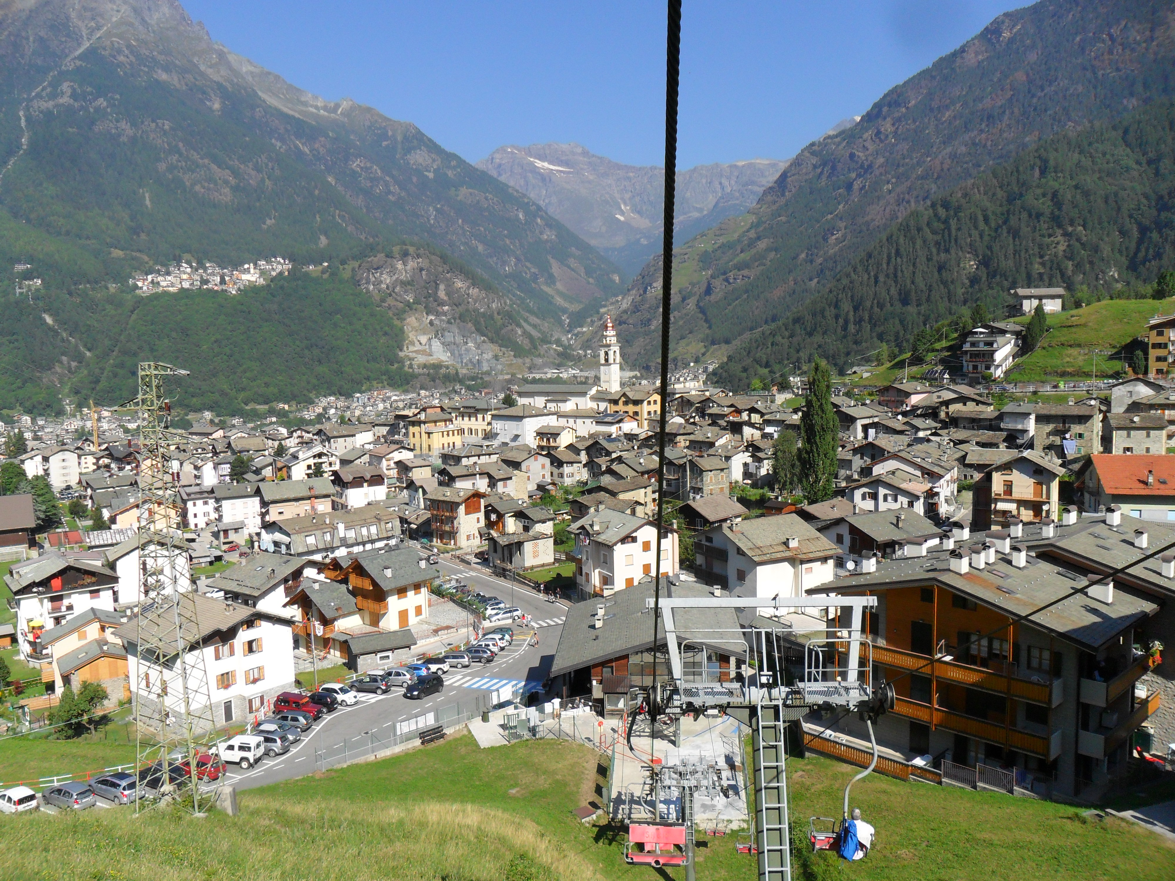 free licensed